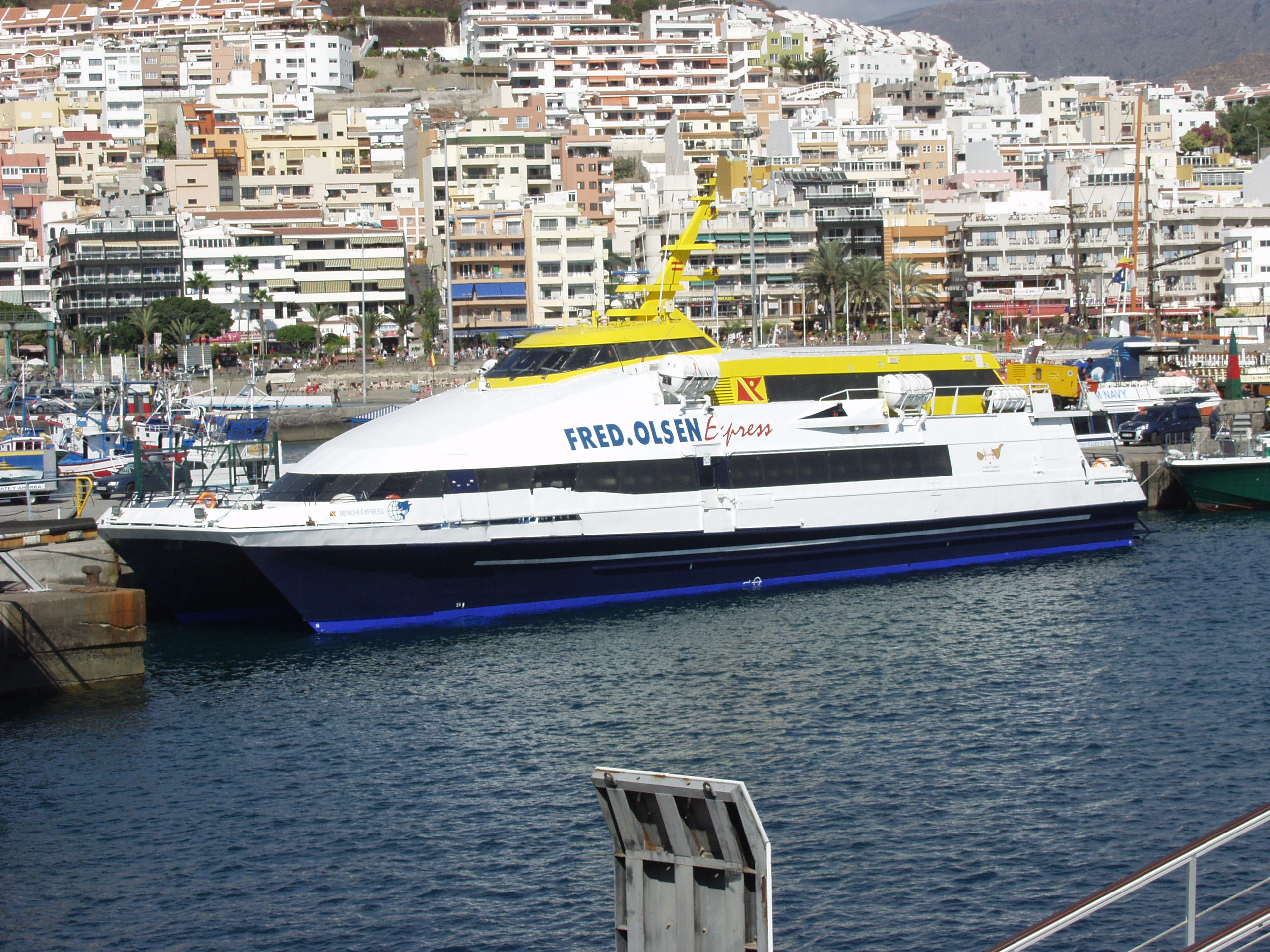 Passenger Ferry 'Benchi Express' is part of the fleet of' Fred. Olsen Express' in the port of Los Cristianos, Tenerife, Spain.